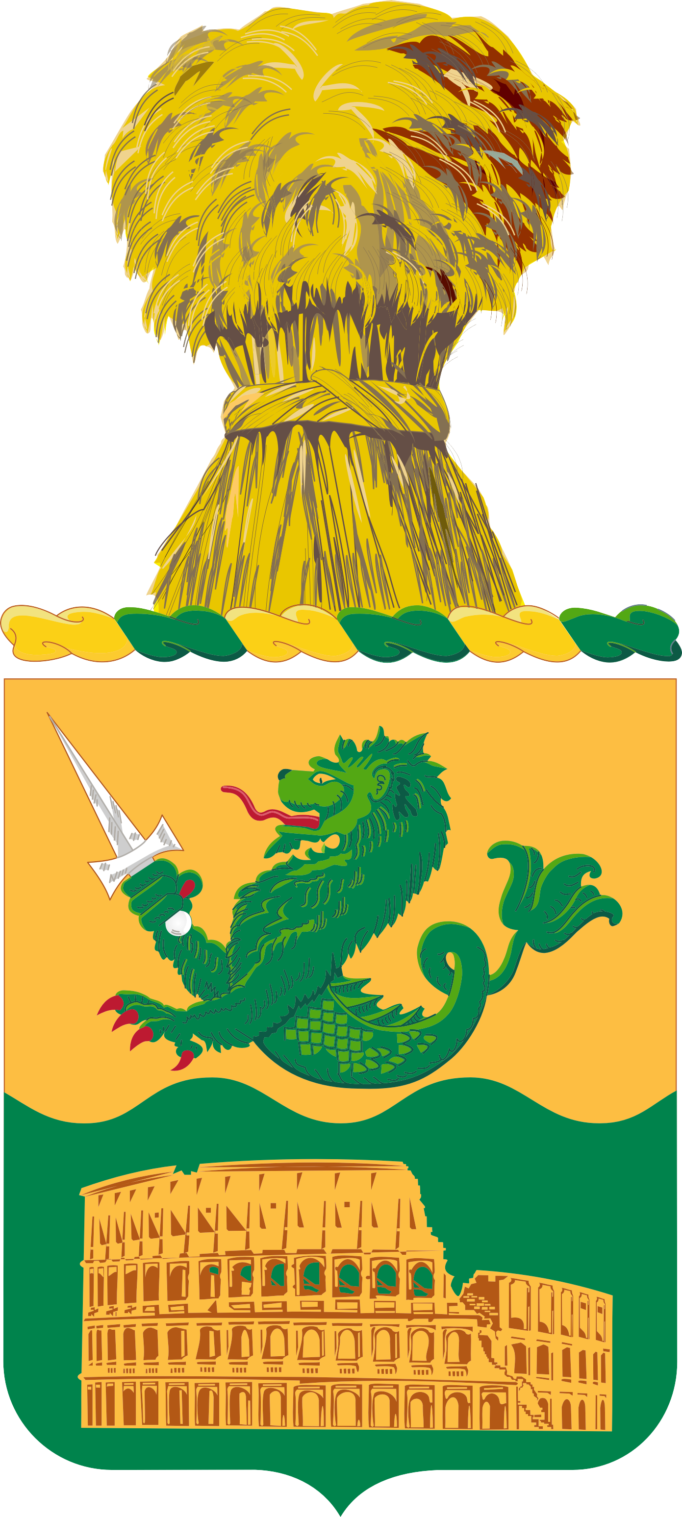 194th Armor Regiment coat of armsThe sea lion, from the coat of arms of Manila, symbolizes World War II service in the Philippines. The representation of the Coliseum is emblematic of participation of certain elements of the regiment in Italy during the same war.